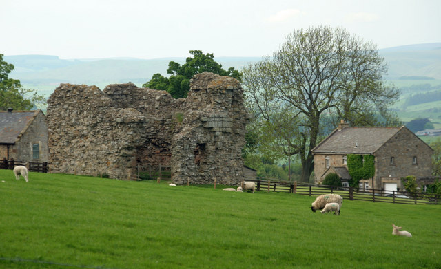 Great Tosson Tower House Medieval tower house at Great Tosson in the Coquet Valley.